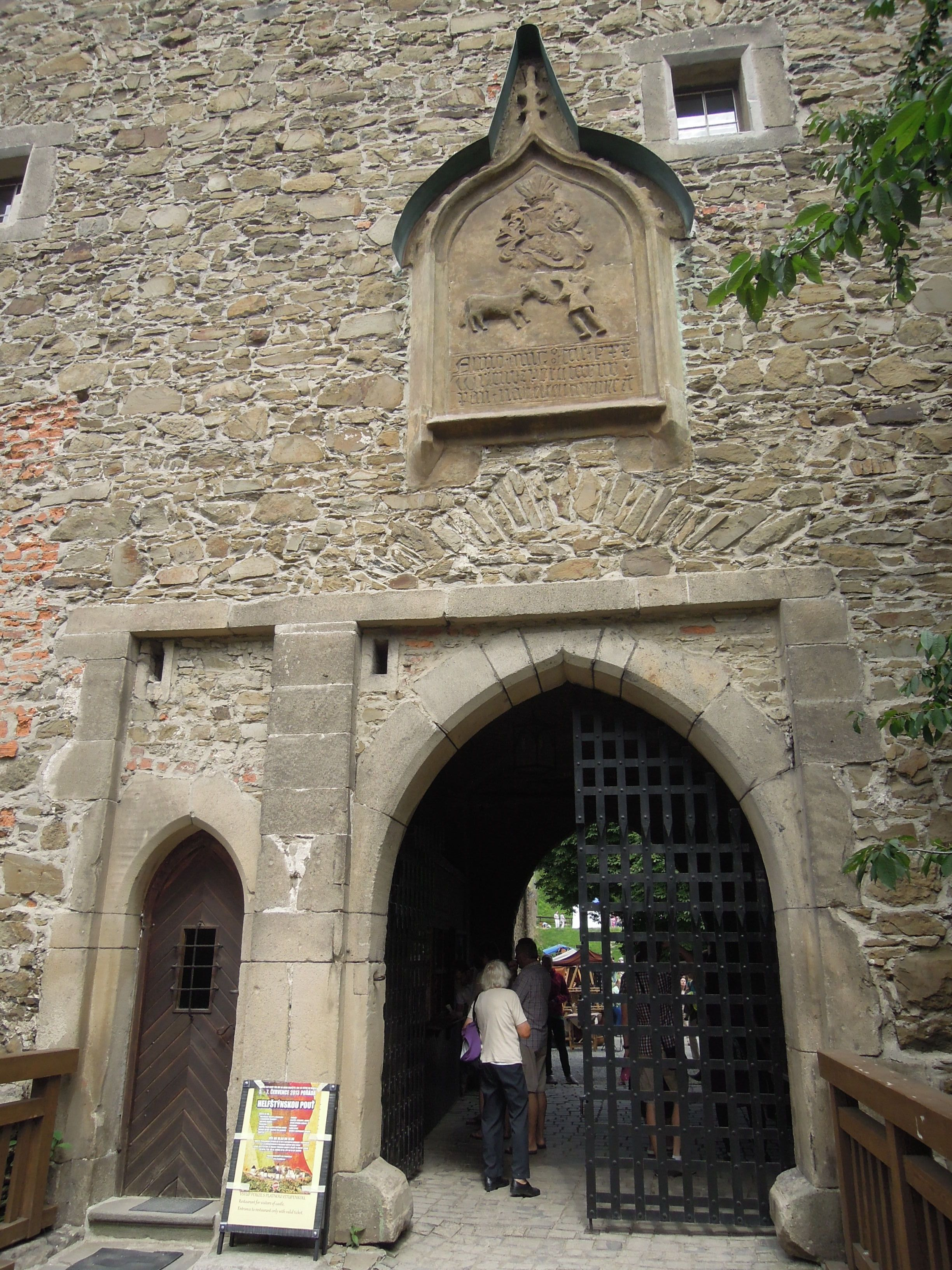 Castle Helfštýn near Týn nad Bečvou, Přerov District, Olomouc Region, Czech Republic